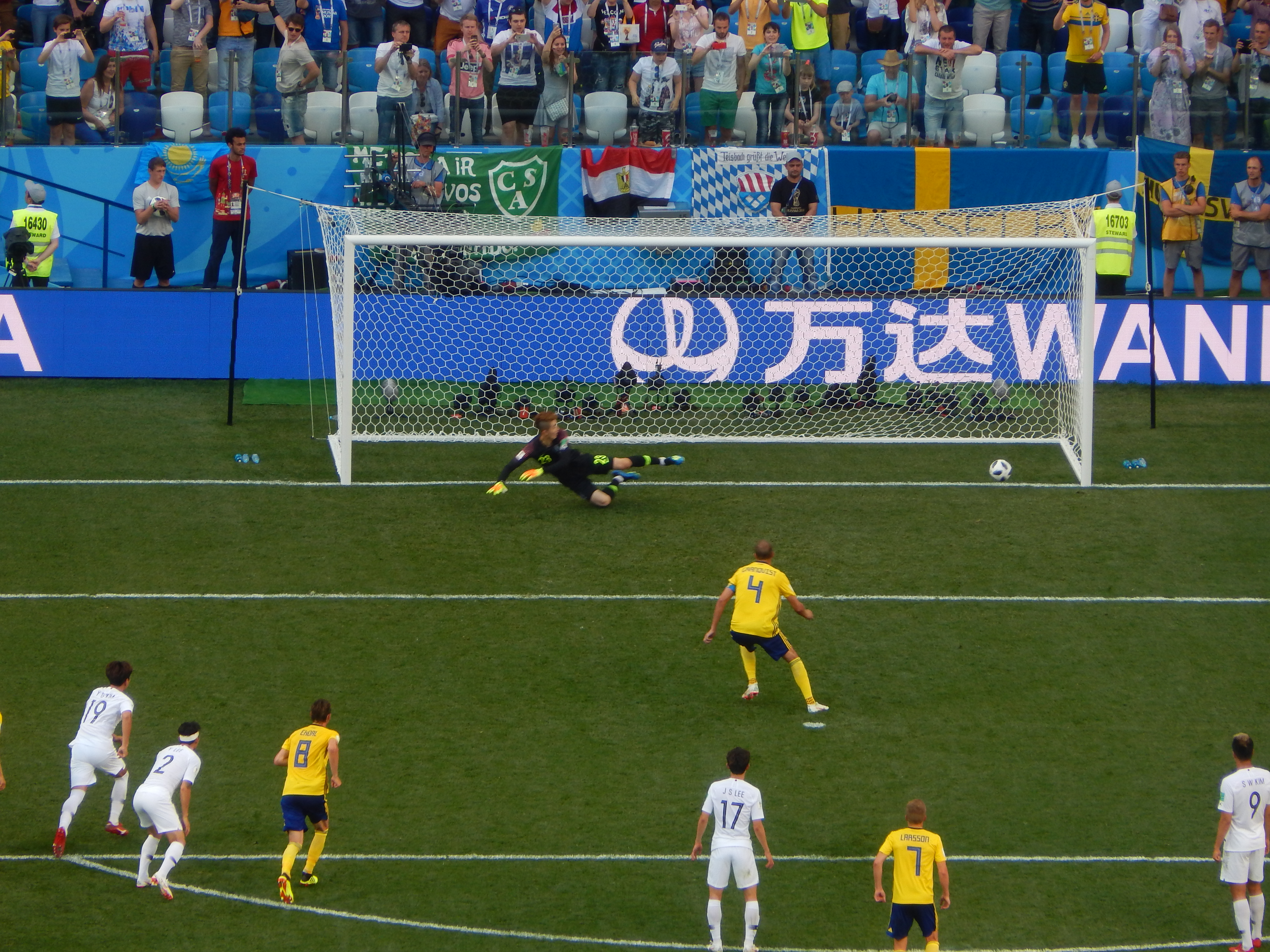 Andreas Granqvist scores against South Korea at the 2018 FIFA World Cup